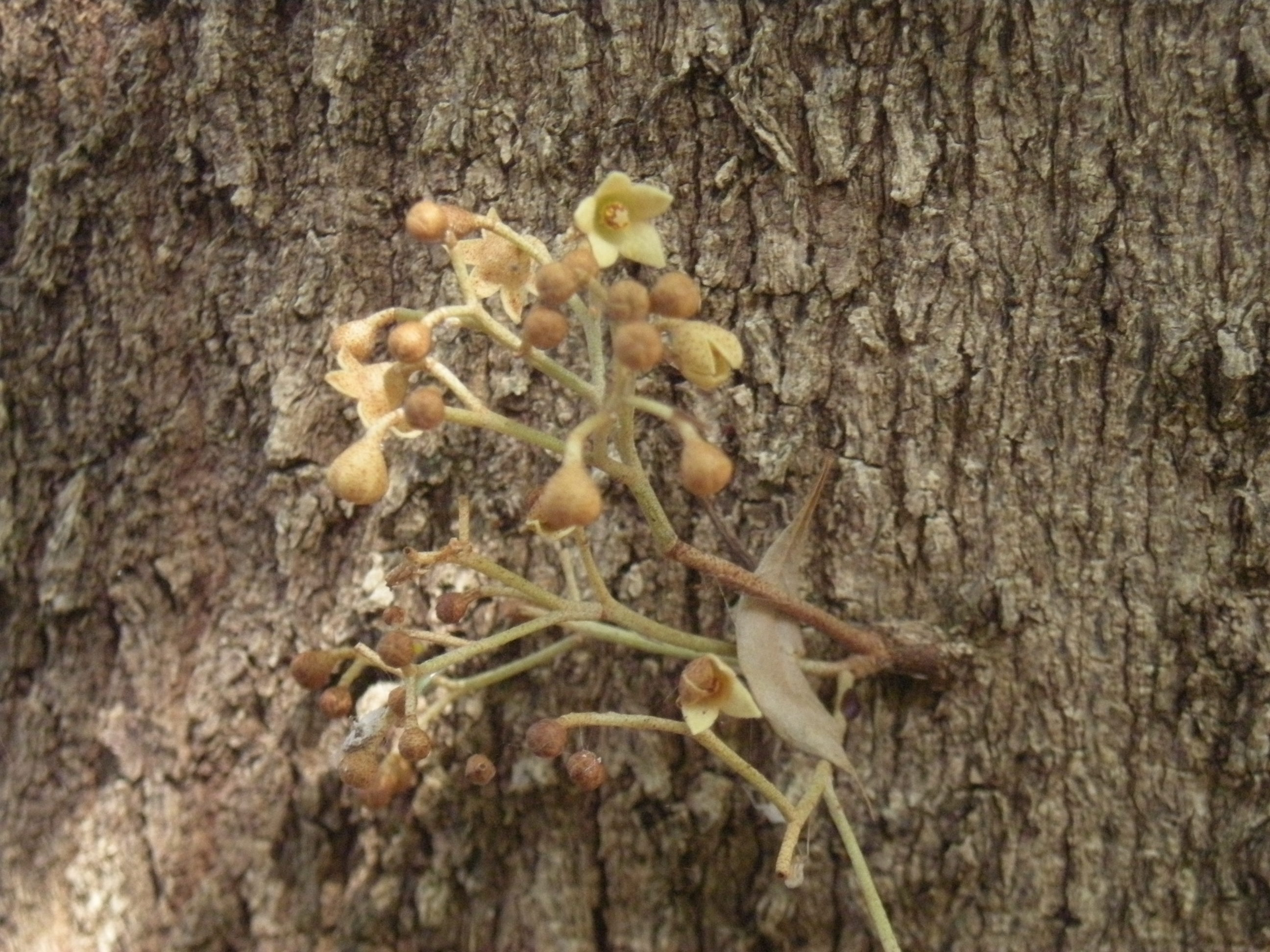 Argyrodendron trifoliatum flowers